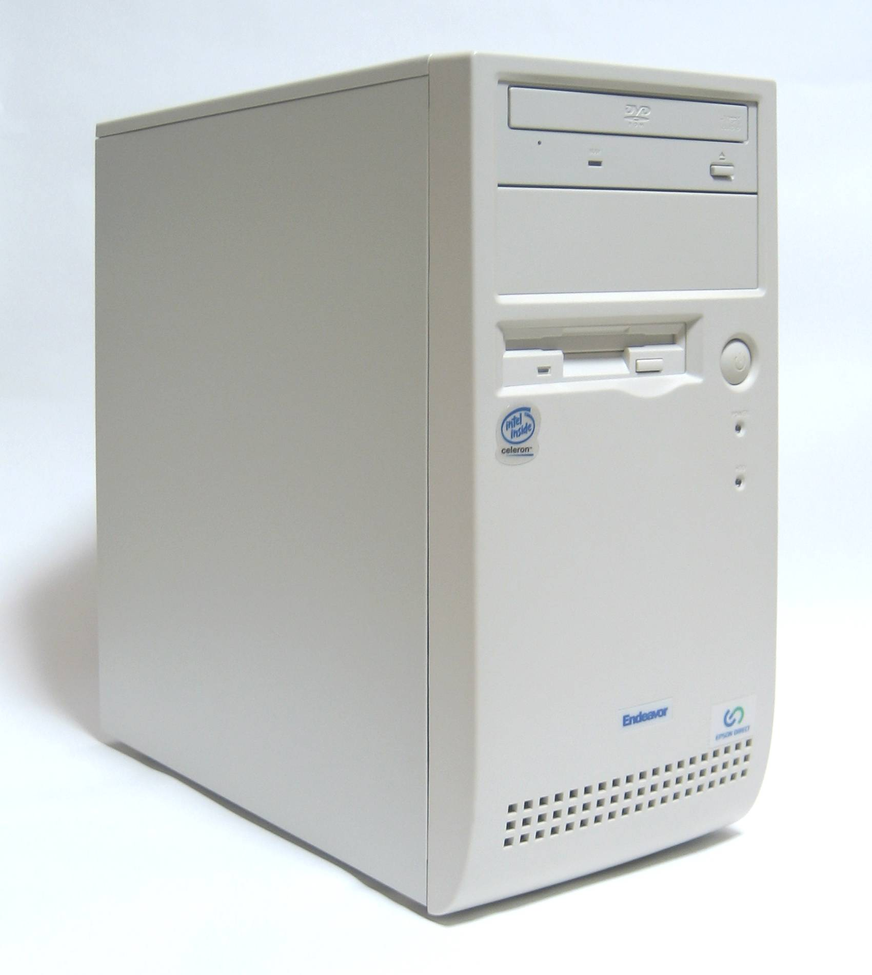 Epson (Epson Direct) Endeavor MT-4500.